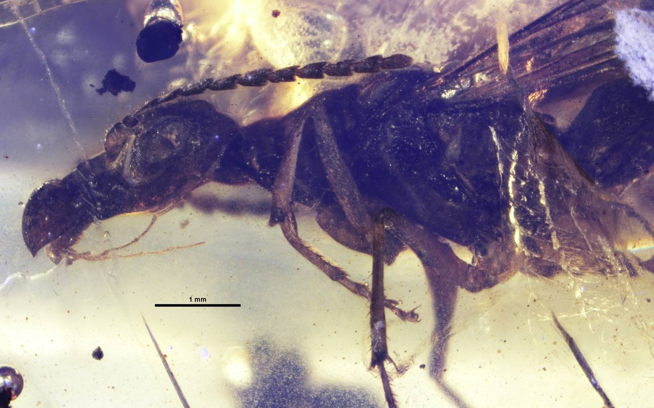 Left profile view of the Camelomecia janovitzi holotype queen head. Burmese amber, Earliest Cenomanian; Kachin State, Myanmar American Museum of Natural History specimen AMNH-BUTJ003